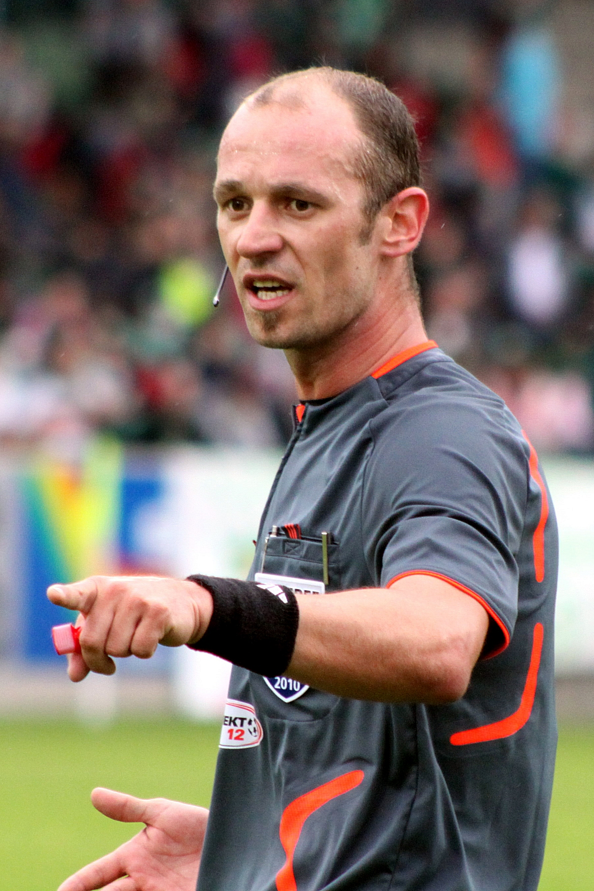 Oliver Drachta - Referee (association football) of Austria